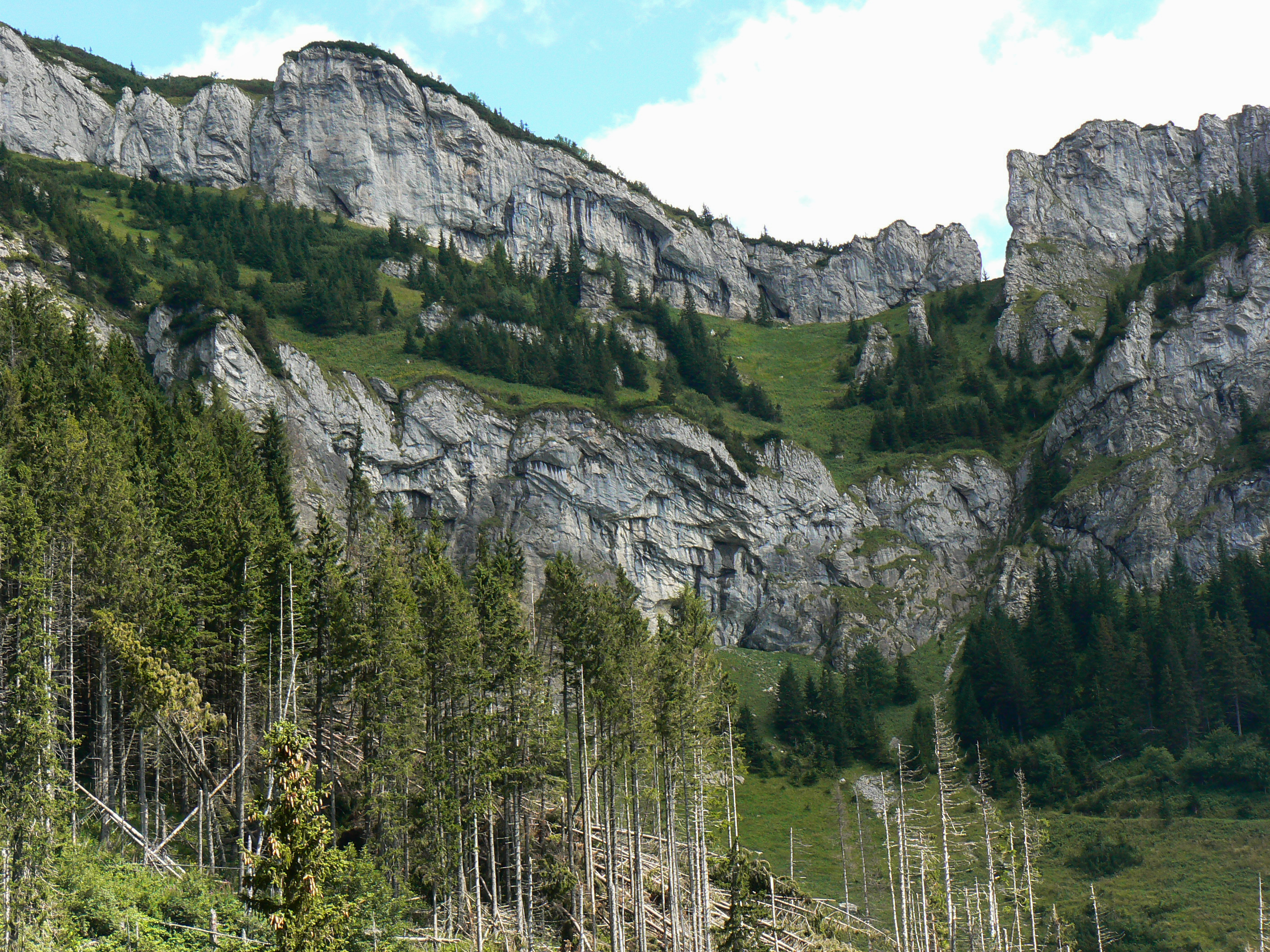 On the way to Biele pleso